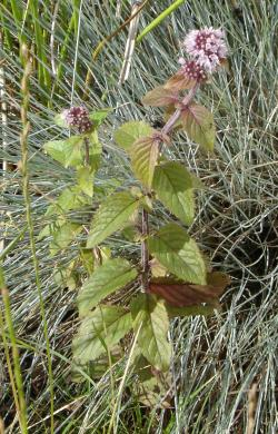 Mentha aquatica in bloom